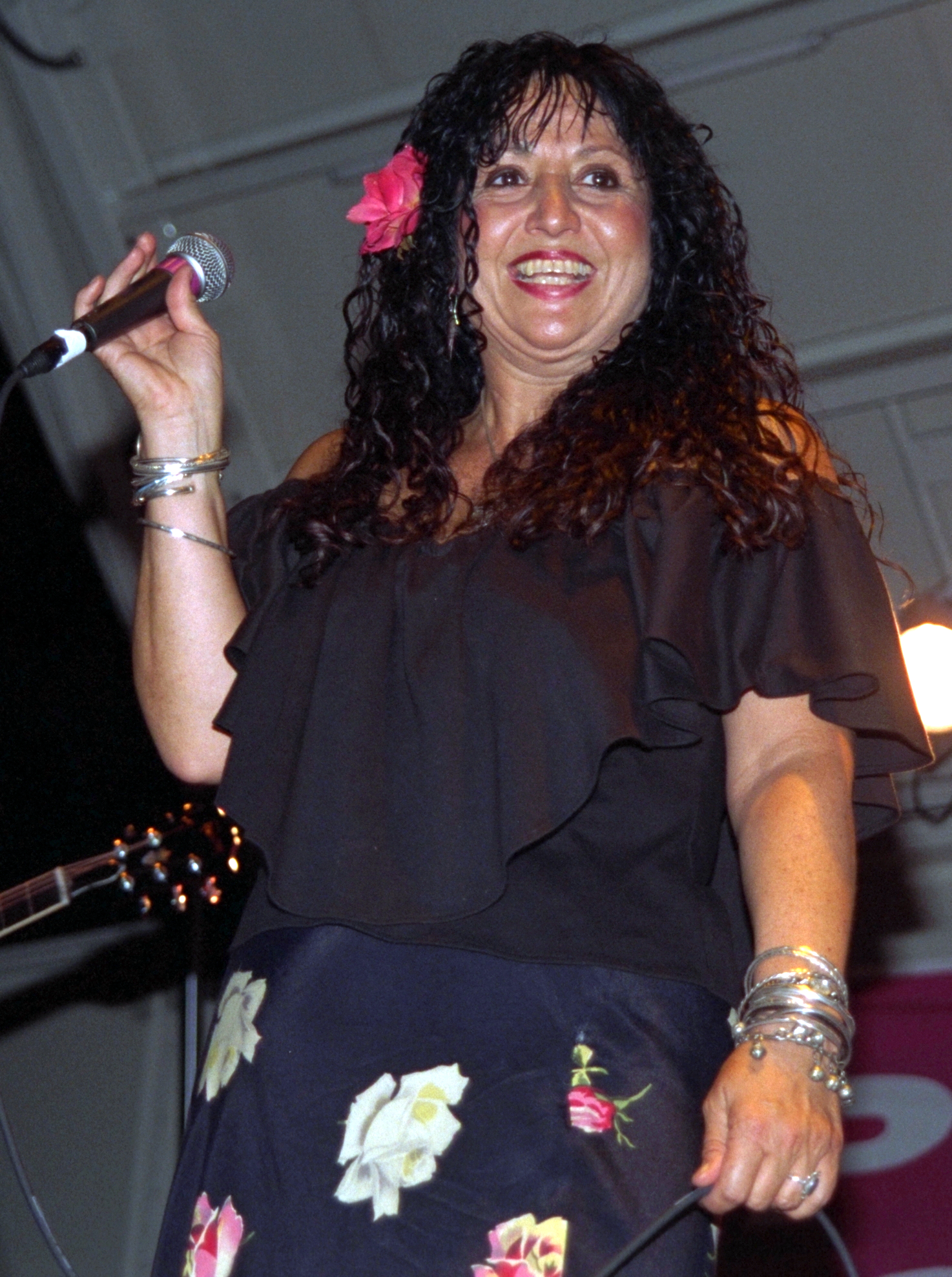 Maria Muldaur performing at the 1996 Riverwalk Blues Festival in Fort Lauderdale, FL.